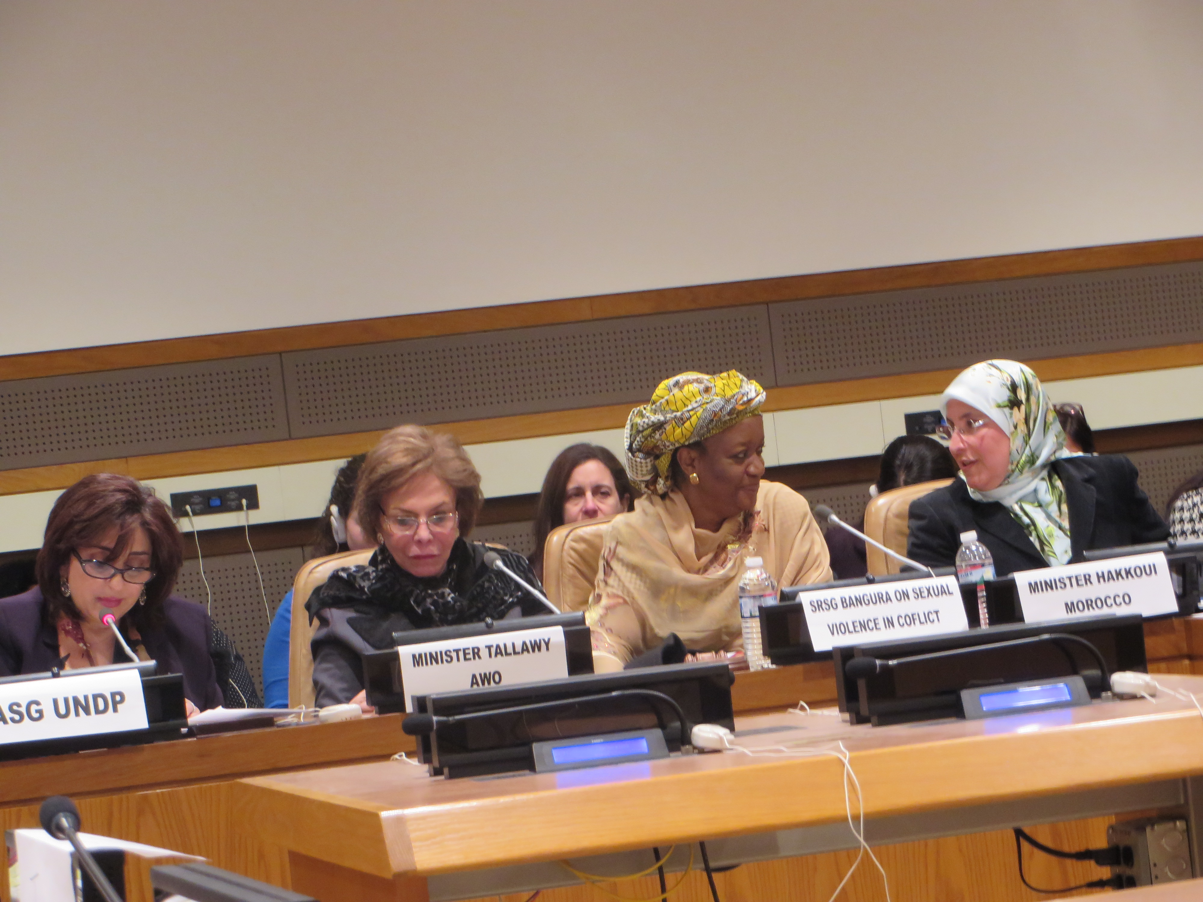 Podium „Arab Women Organisation Side –Event“ - Sima Sami Bahous (Assistant Secretary-General United Nations Development Programme (UNDP)); Mervat Tallawy (Secretary-General of the Egyptian Social Democratic Party) Zainab Hawa Bangura (Special Representative of the Secretary-General on Sexual Violence in Conflict); Bassima Hakkaoui (Minister of Solidarity, Women, Family and Social Development. Foto: Gitti Hentschel اجتماع لمنظمة المرأة العربية بحضور السيدة ميرفت التلاوي الأمين العام للحزب الاشتراكي الديمقراطي المصري، وسيما سامي بحوث مساعد الأمين العام للأمم المتحدة، وزينت هاوا بانجورا الممثل الخاص للأمين العام المعني بالعنف الجنسي في حالات النزاع، وبسيمة الحقاوي وزيرة التضامن والمرأة والأسرة والتنمية الاجتماعية.